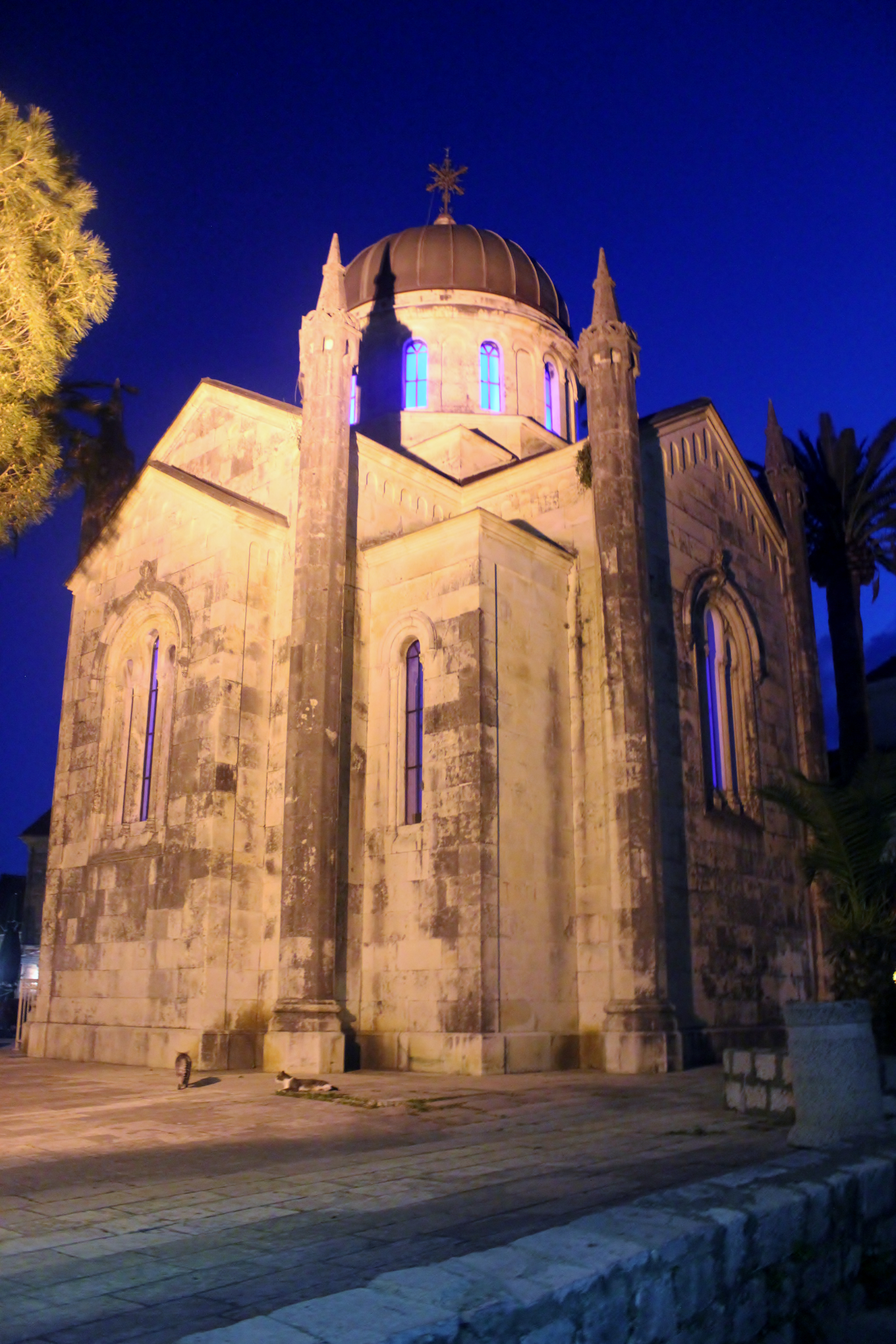 churh